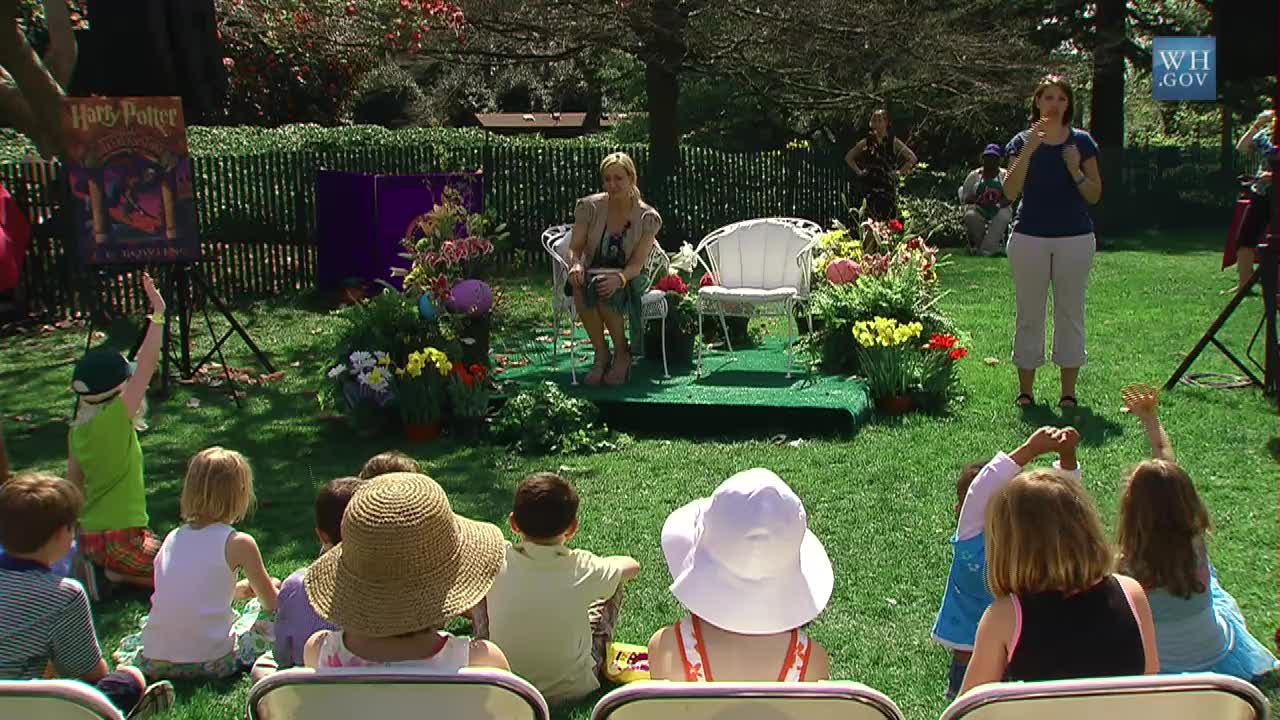 Author J.K. Rowling answers questions after reading from Harry Potter and the Sorcerer's Stone at the Easter Egg Roll at White House. Screenshot taken from official White House video.